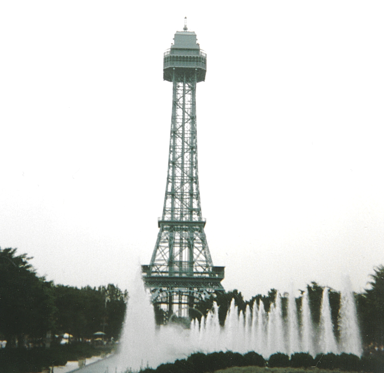 Paramount's Kings Island 1/3 Scale Eiffel Tower Replica, Photo taken by me in 1994 with a cheap disposable camera, should be replaced as soon as possible